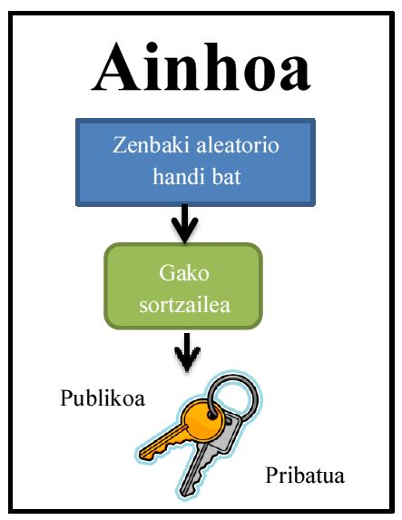 BiGakoak